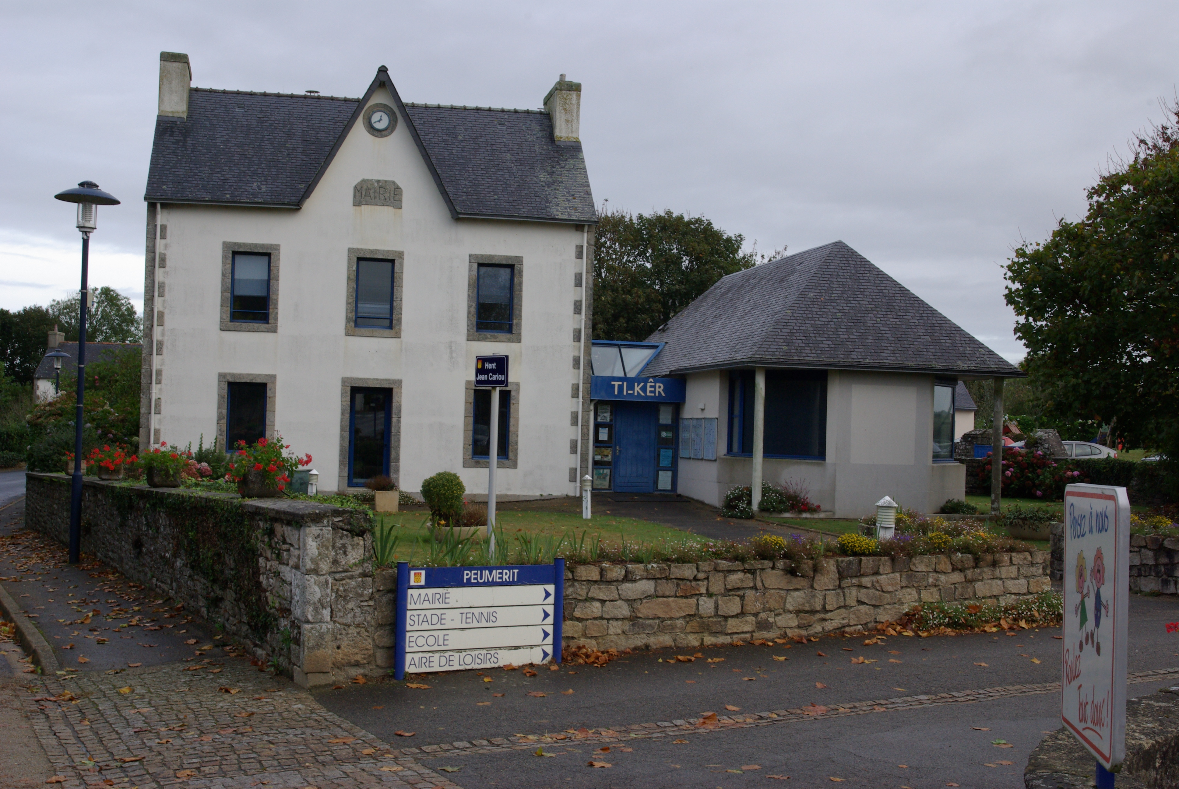 Peumerit, mayor's office